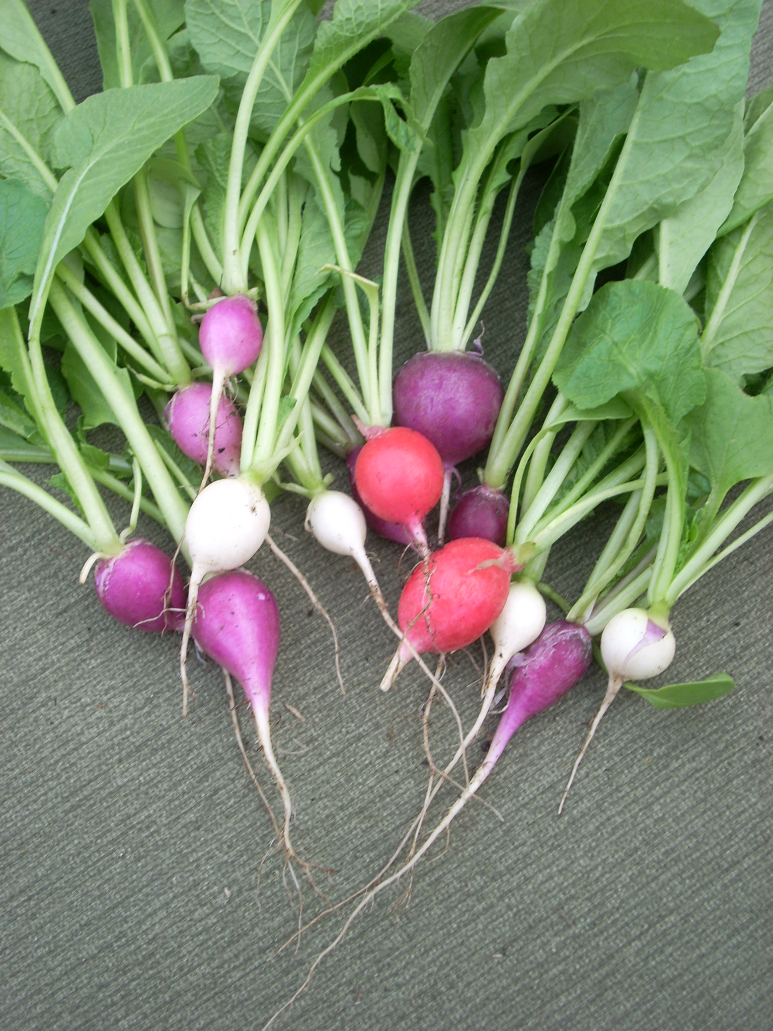 Easter egg radishes, just harvested